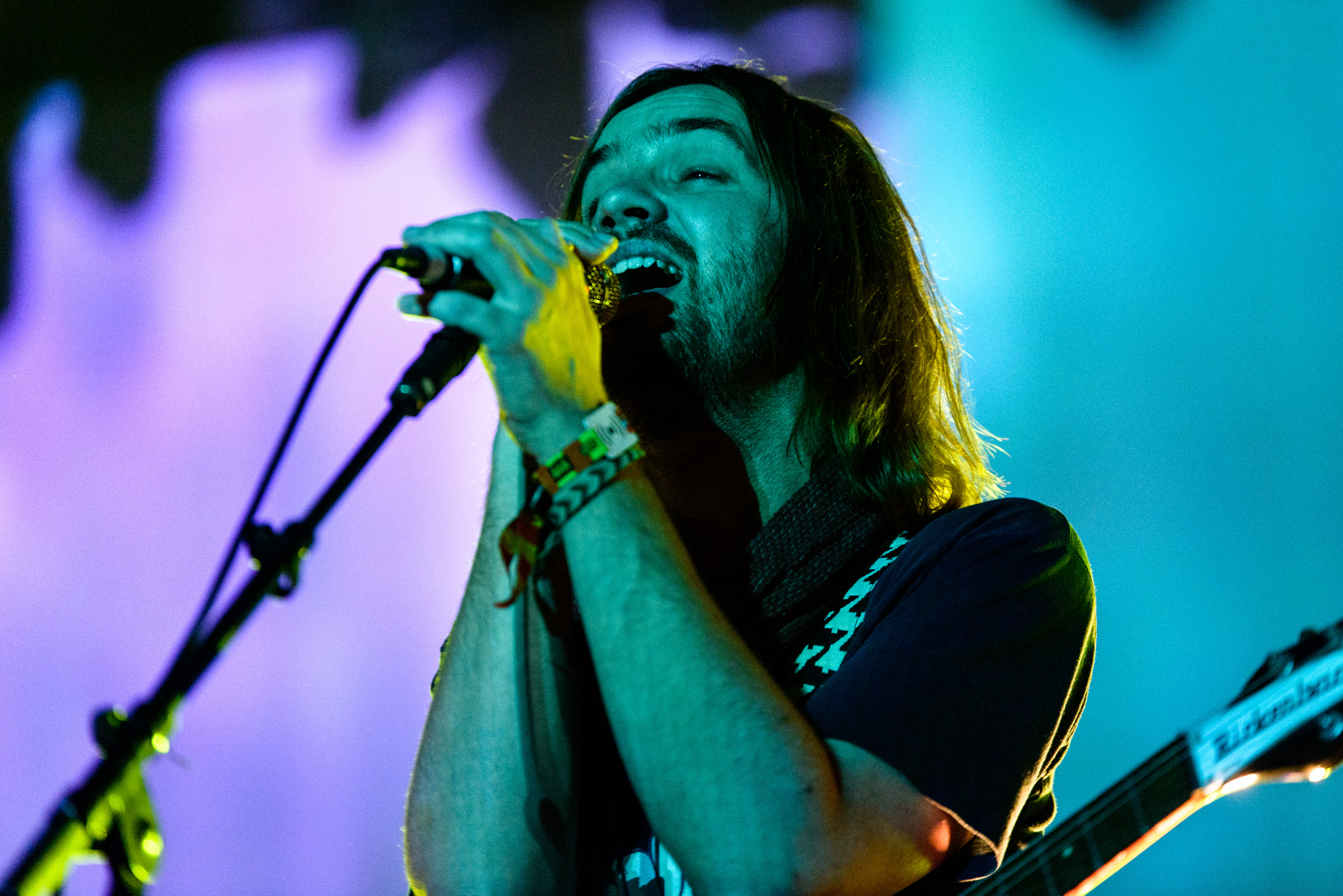 Tame Impala @ Lollapalooza 2015